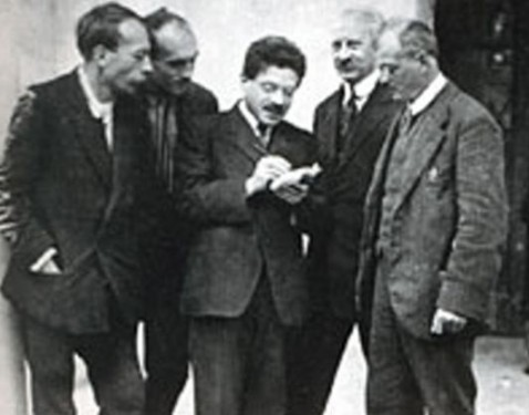 Left to right: Iwan Wassiljewitsch Obreimow, Nikolay Semyonov, Paul Ehrenfest, Abram Ioffe, Aleksandr Chernyshyov